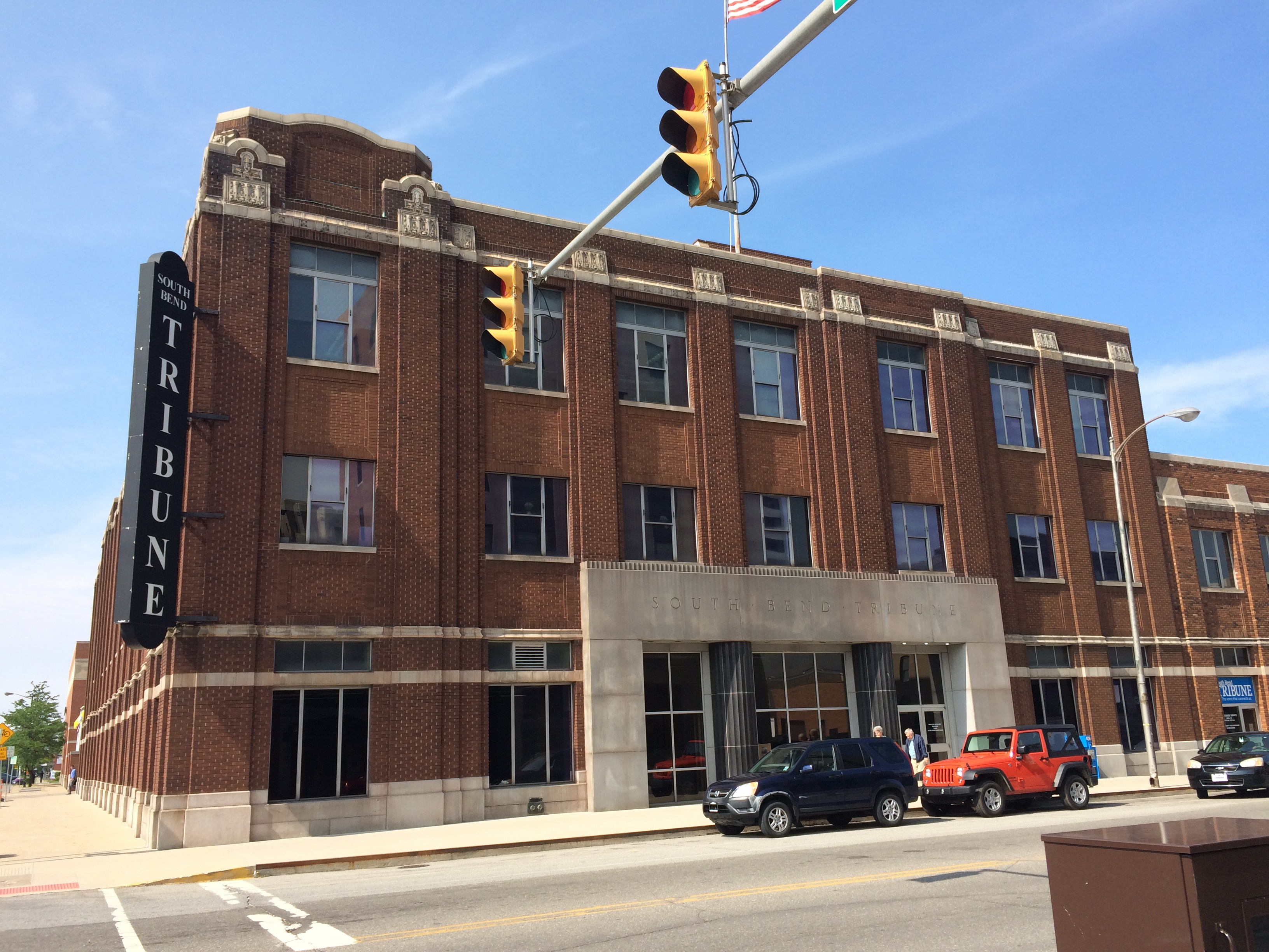 The main building of the South Bend Tribune, located in downtown South Bend, Indiana. Photo taken on 1 July 2015.